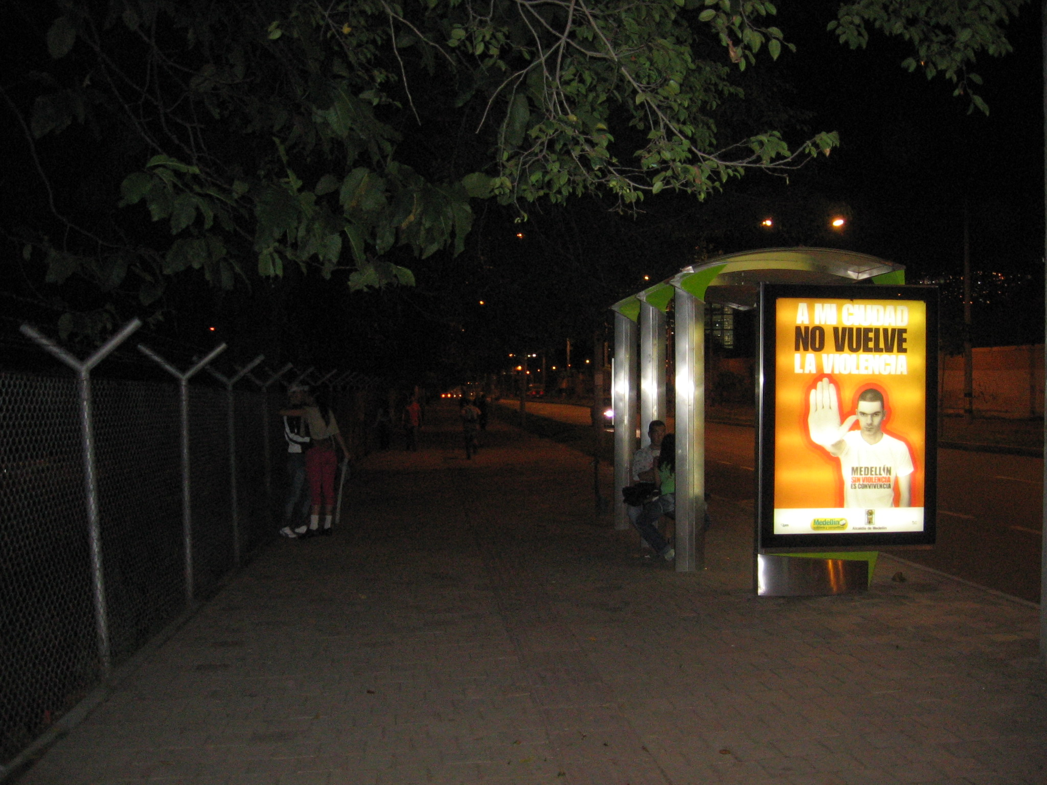 "A mi ciudad no vuelve la violencia" (Violence will not come back to my city), a campaign in Medellín, Colombia against urban violence (2008).